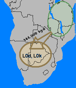 Map was cropped to show Southern Africa. The regions of Africa with the deepest mitochondrial DNA diversity are shown in Green, while those enriched in L0d and L0k are shown in light brown. The approximation of the boundaries of the green areas come from Gonder et al., Whole mtDAN genome sequences analysis of Ancient African lineages. Mol. Biol. & Evol 24 (2006) 757-768 (see Supplimentary materials for peoples and types) The date for the migration into brown circled region comes from Behar et al., "The Dawn of human Matrilineal Diversity", AJHG 82 Note: The map is mislabelled, "144,000 kya" should be either "144,000 ybp" or "144 kya". The specific figure "144" is not substantiated in the reference given; it is an oddly specific figure picked from within the 95% CI. Behar et al. state: "Both the tree phylogeny and coalescence calculations suggest that Khoisan matrilineal ancestry diverged from the rest of the human mtDNA pool 90,000-150,000 years before present (ybp)", which might best be expressed by something like "120±30 kya". The area indicated for the localization of L0 in Behar et al. (fig. 2) also only roughly corresponds to the area shown here; it includes all of Southern Africa, from about the northern border of Namibia to the cape, with a center close to the northern border of South Africa, i.e. it does not include the southernmost part of Southern Africa as suggested here.